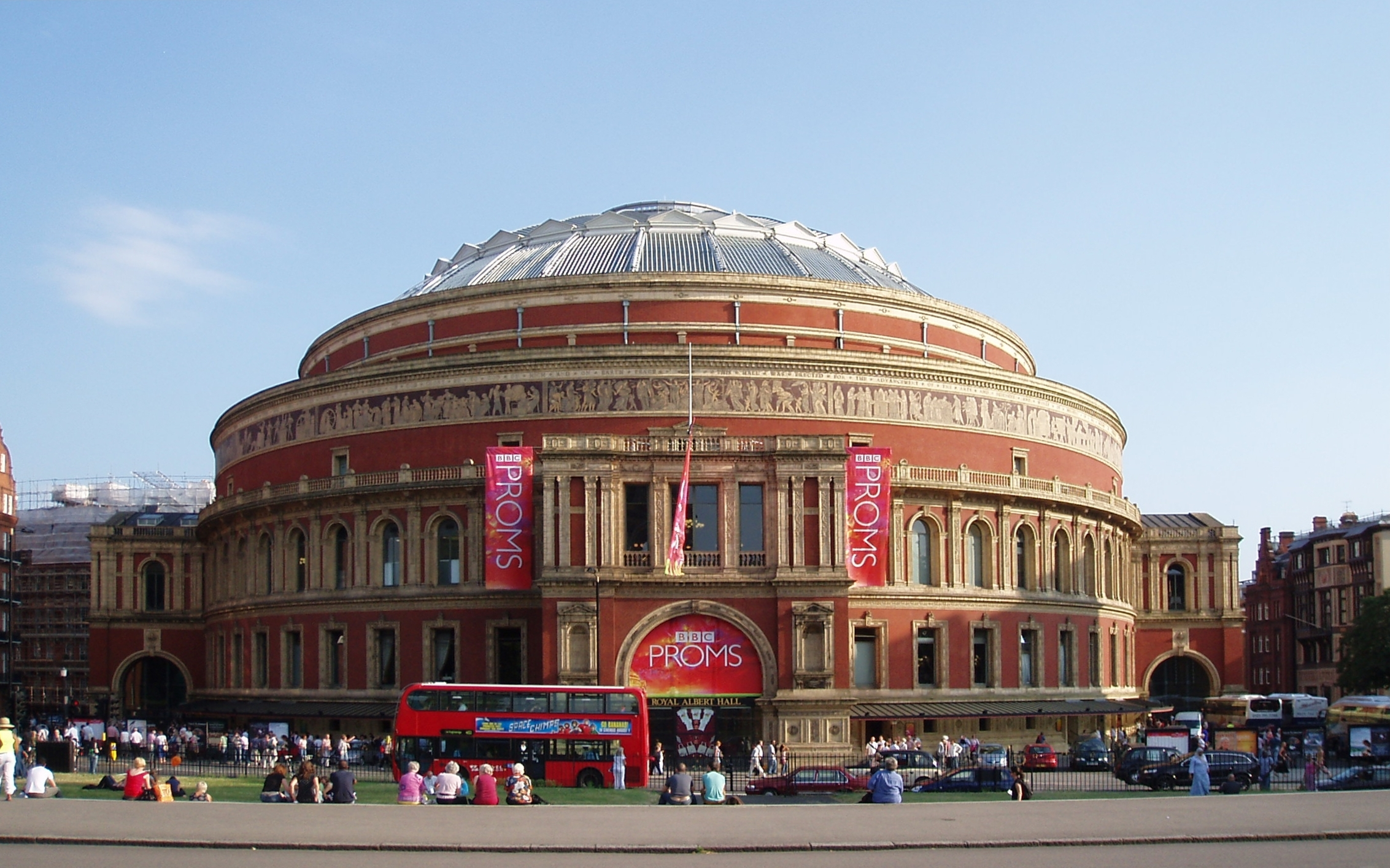 The Royal Albert Hall, London, England shown during the 2008 BBC Proms season.